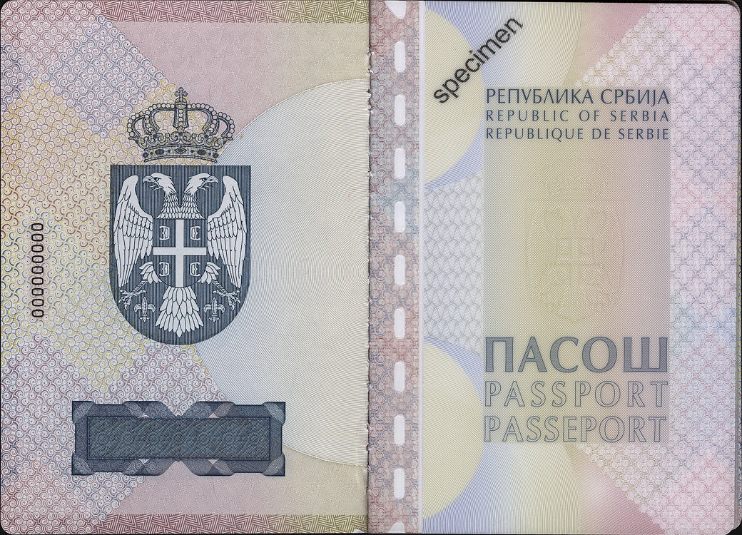 New Biometric Passport of Serbia